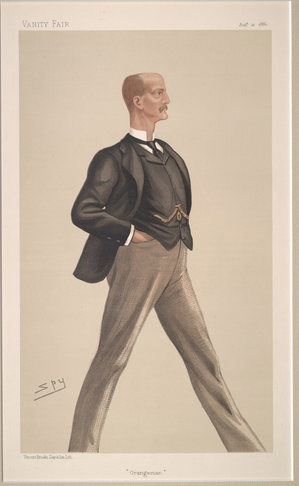 Statesmen No.497: Caricature of Lord AW Hill PC MP. Caption reads: "Orangeman"